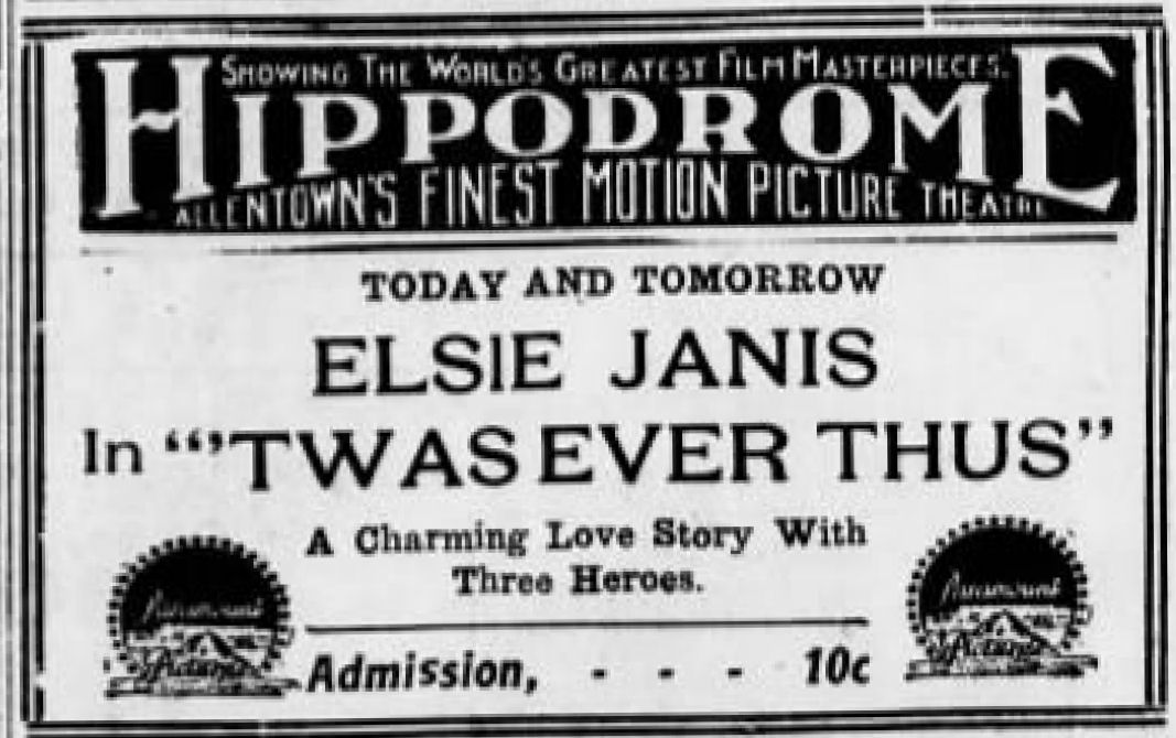 Hippodrome Theater Newspaper advertisement for the American film 'Twas Ever Thus (1915) Allentown PA